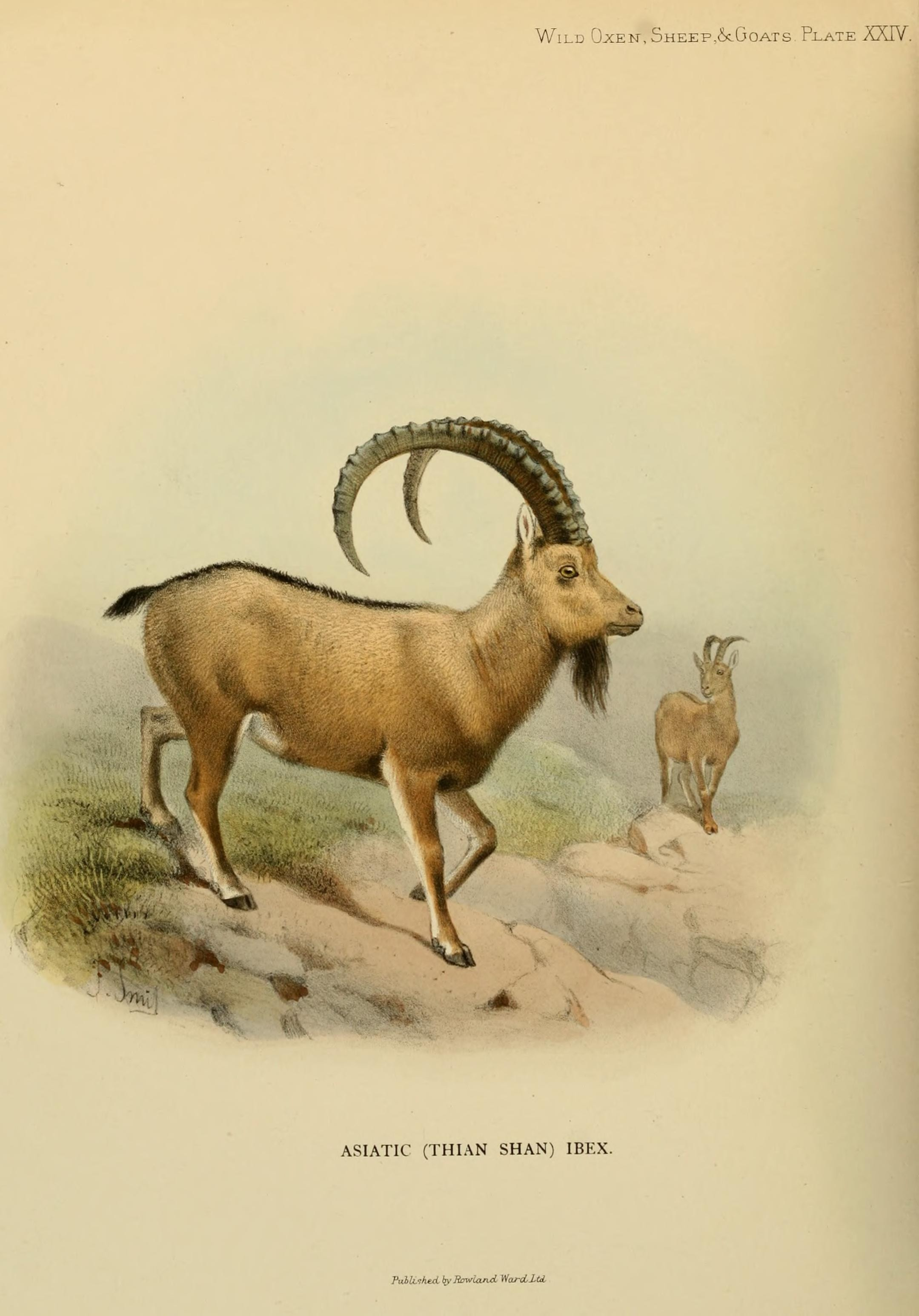 Wild Ojcen, SHEEP,.ly-GoATs Plate XXJY. ASIATIC (THIAN SHAN) IBEX. PulU.'ihed. hyRcv/iand y^cu-cLltd